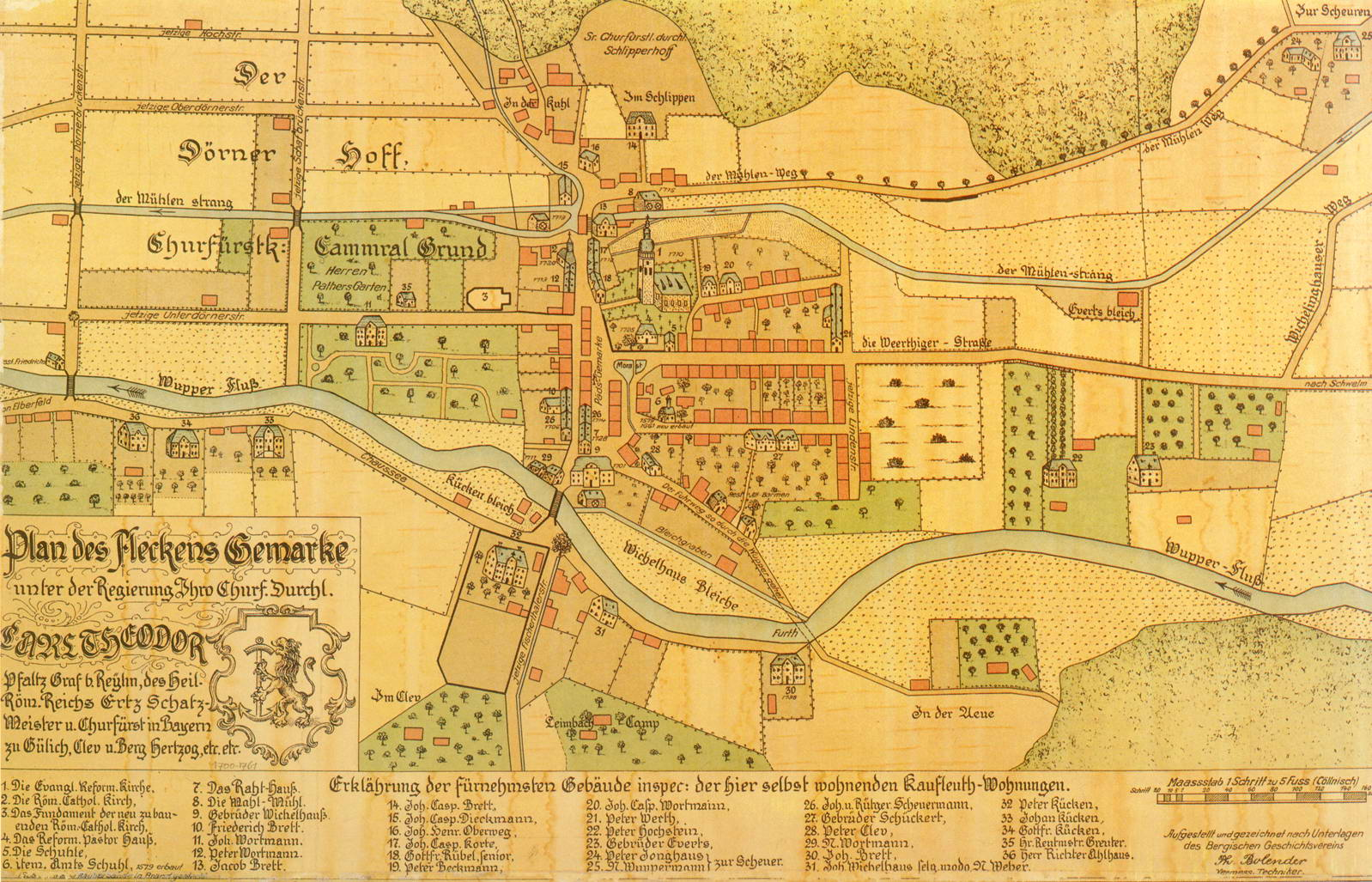 Karte von Wuppertal-Barmen-Gemarke, 1761